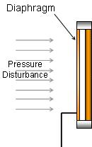 diagram of a capacitive microphone